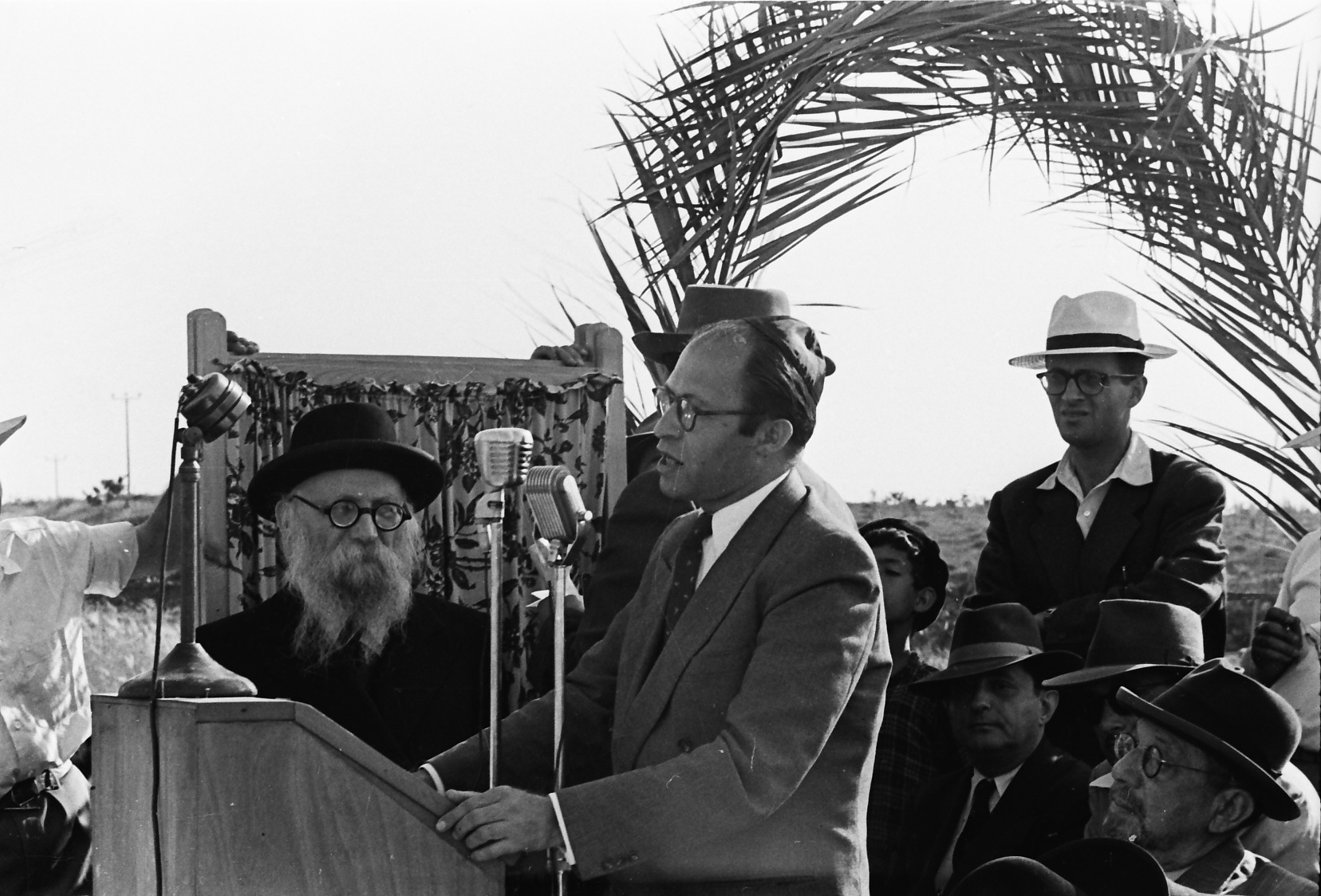 People of Israel